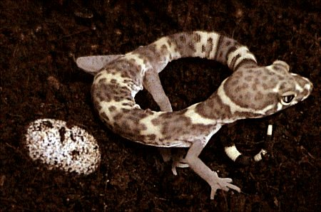 Texas banded gecko (Coleonyx brevis) with egg Imported from en: [1]